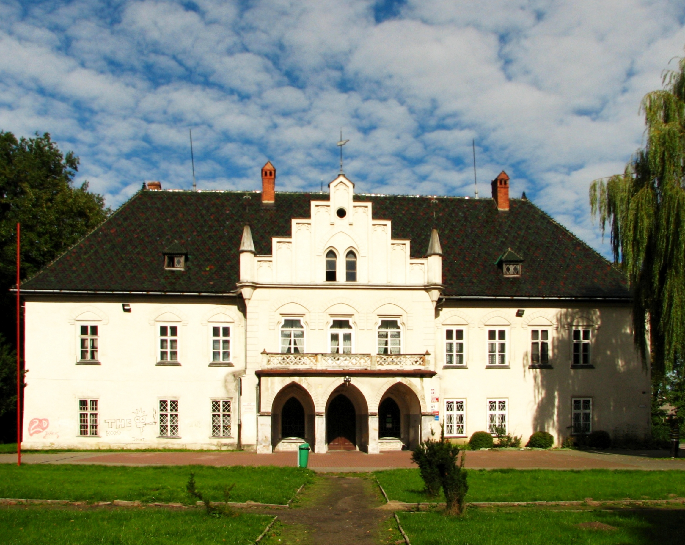 A mansion in Łodygowice, Poland.